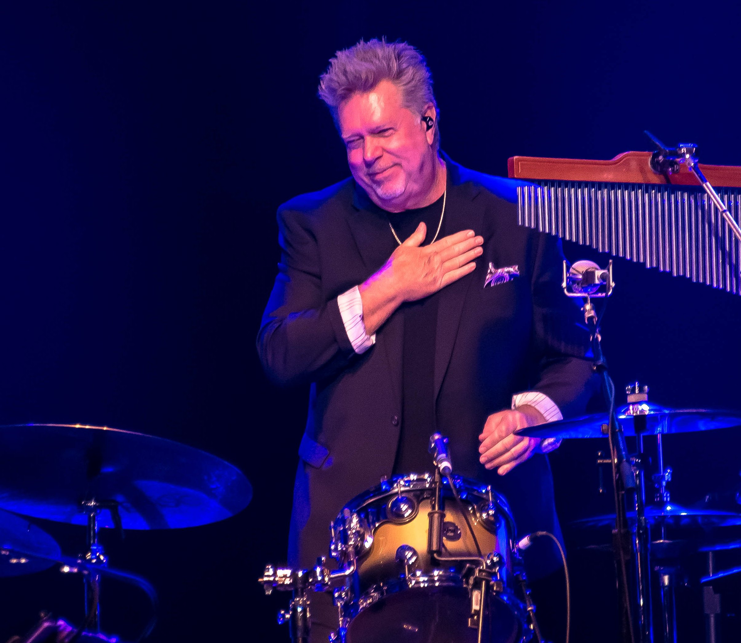 Drummer John "JR" Robinson at a performance. David Foster's The Hitman Tour in Ottawa on June 8, 2019.